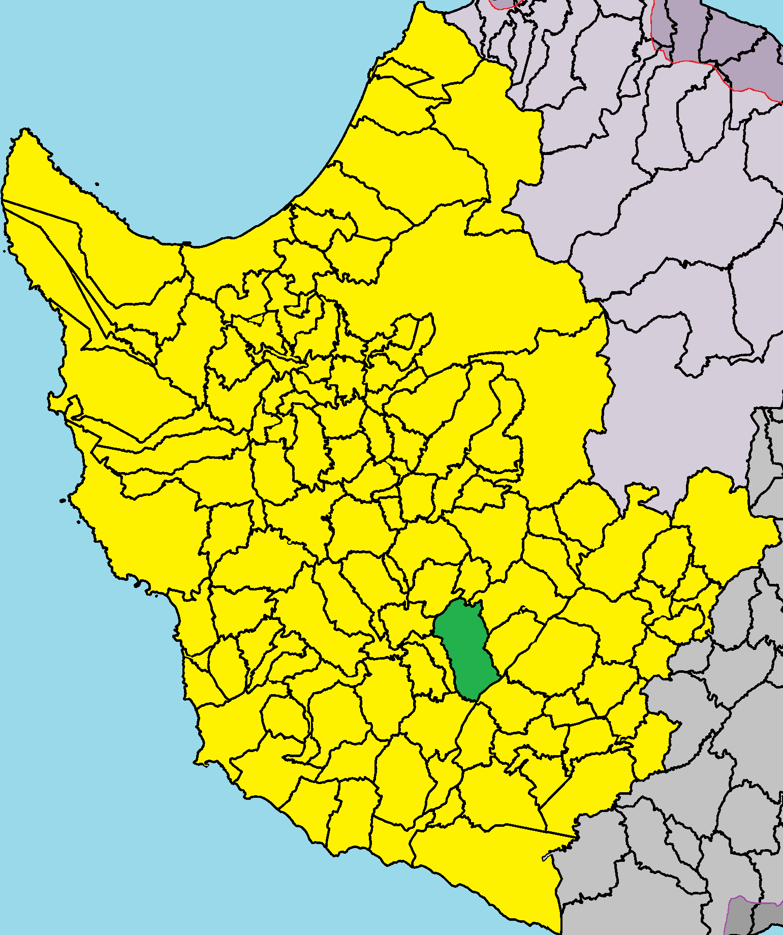 Amargeti in Paphos District.